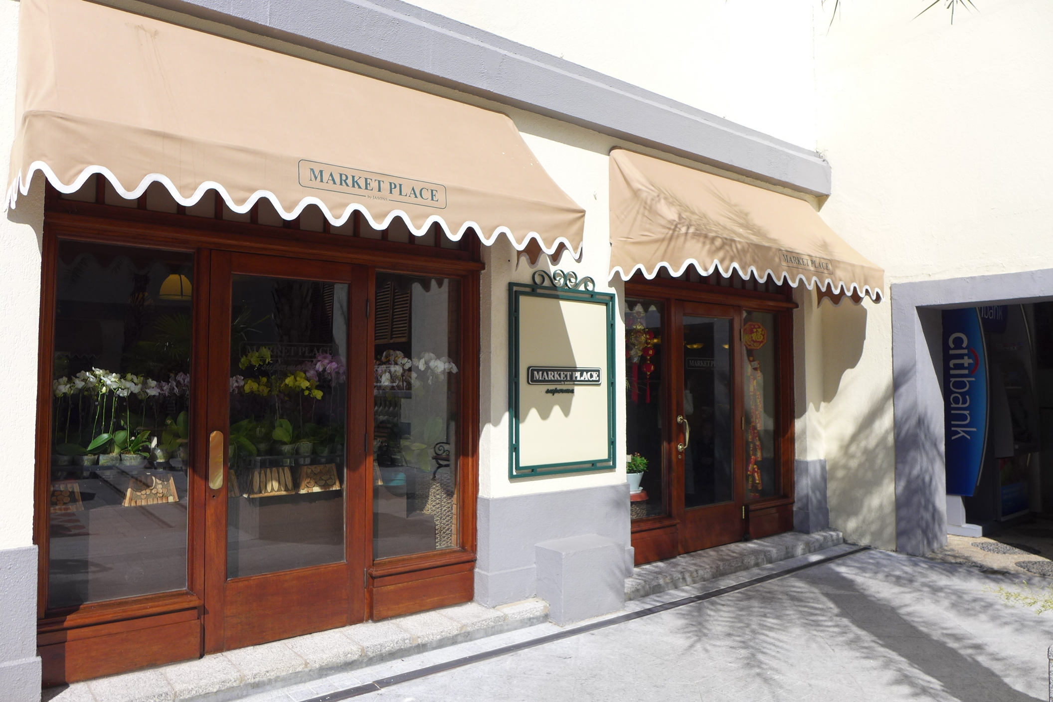 The Repulse Bay Market Place by Jasons